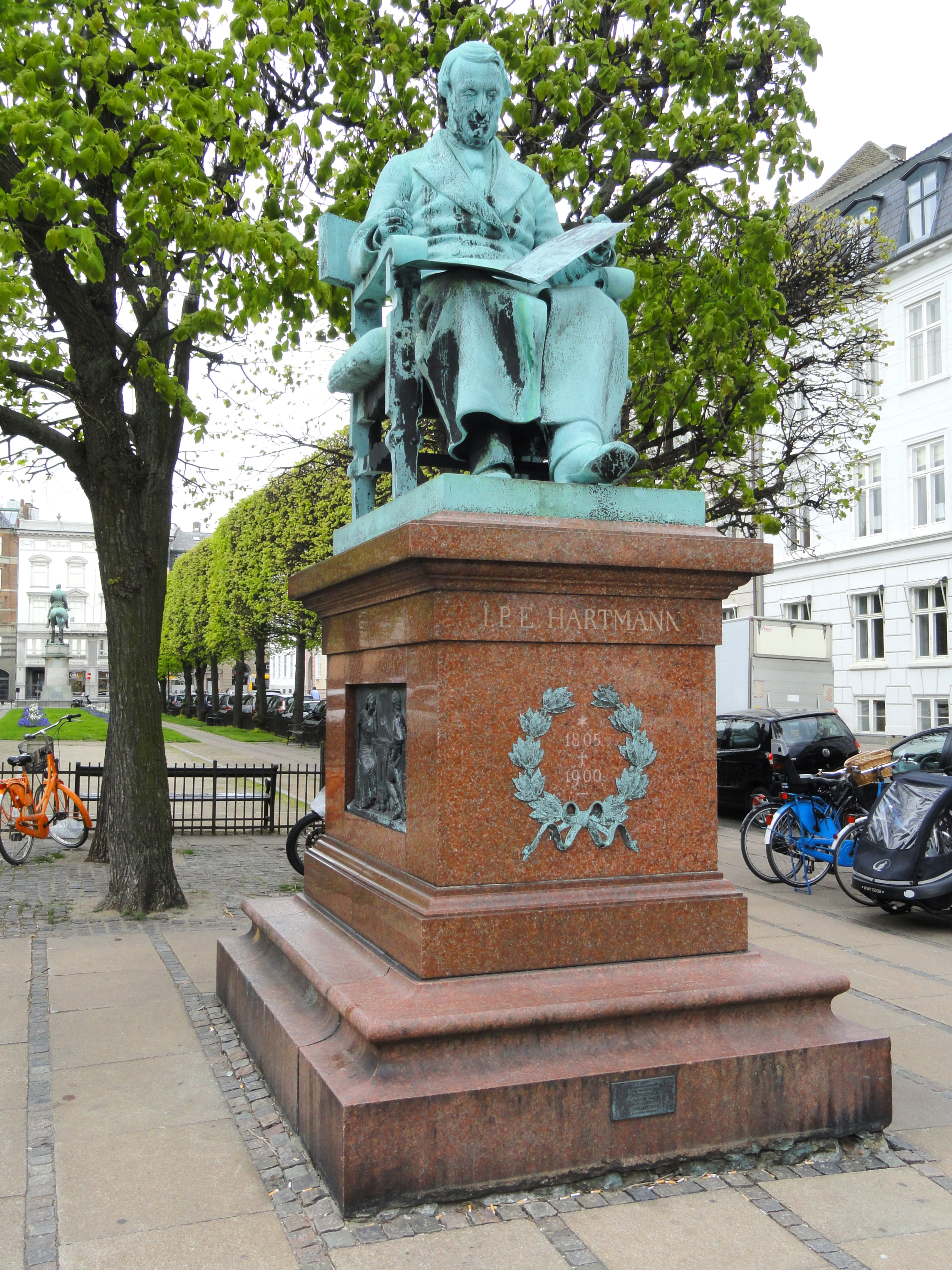 Statue of J.P.E. Hartmann by August Saabye, Copenhagen, Denmark. This sculpture is in the public domain because the sculptor died more than 70 years ago.